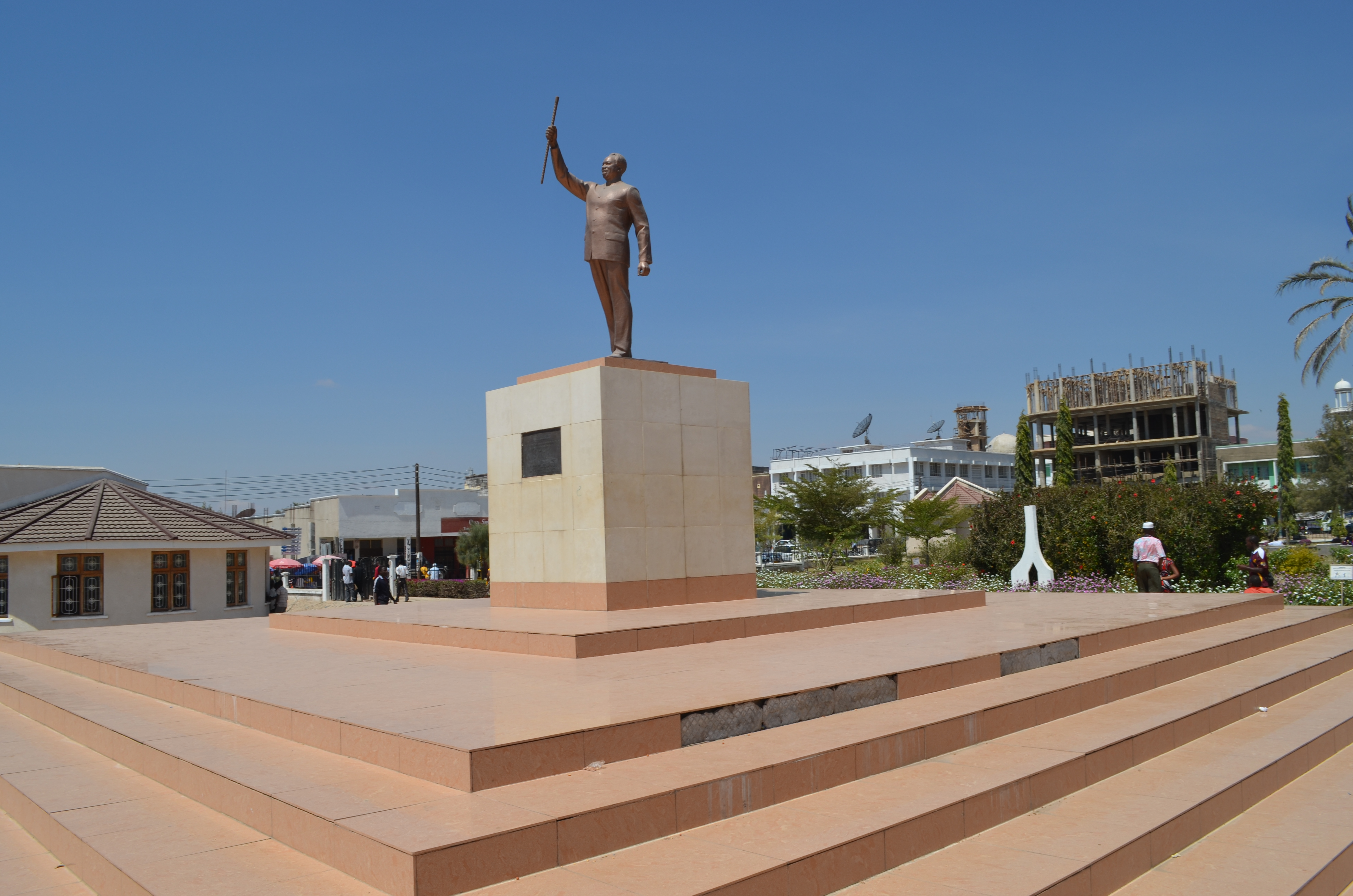 Nyerere Square in Dodoma (Tanzania) with the statue of Julius Nyerere.